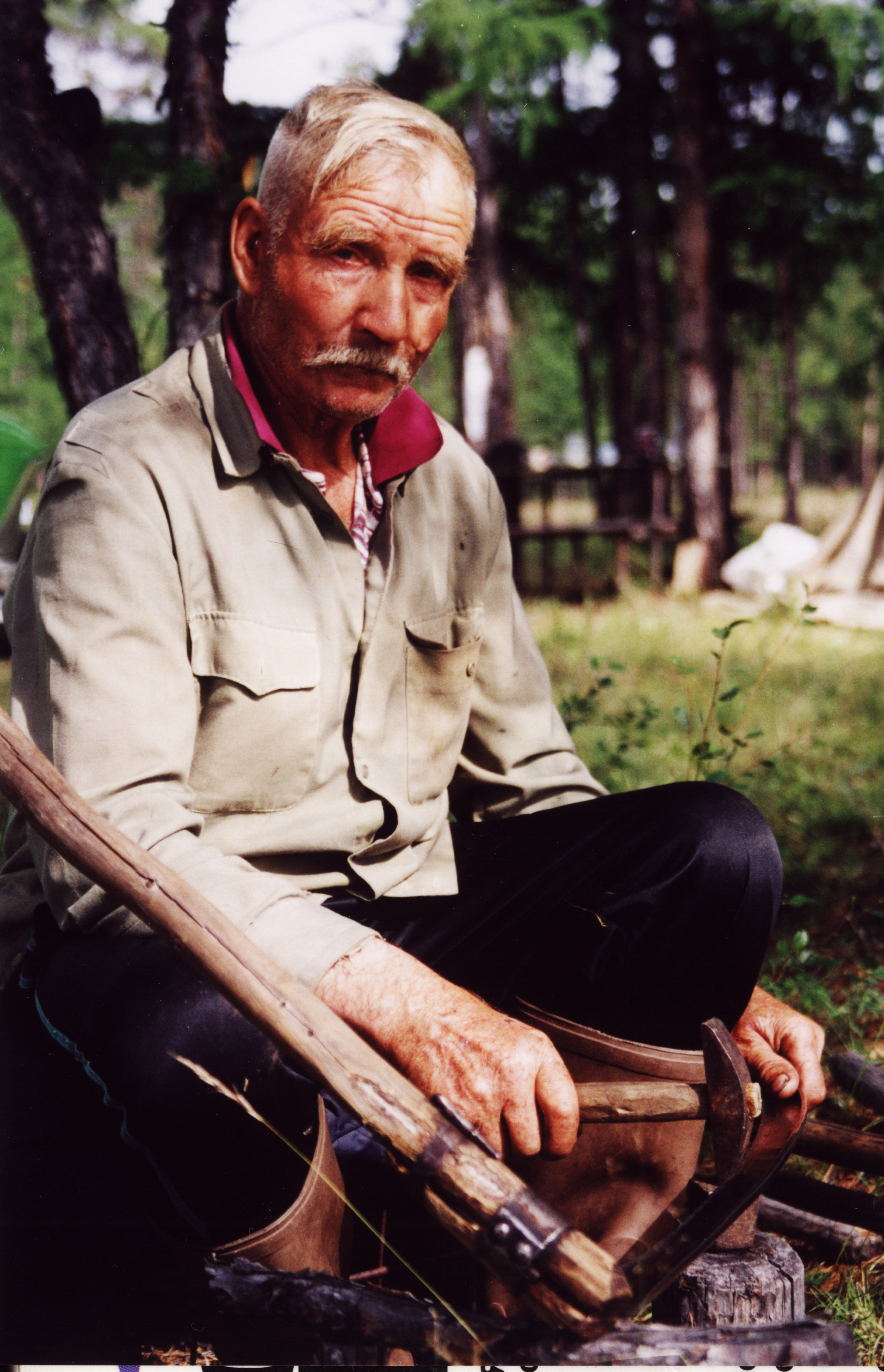 Sharpening scythe blade.